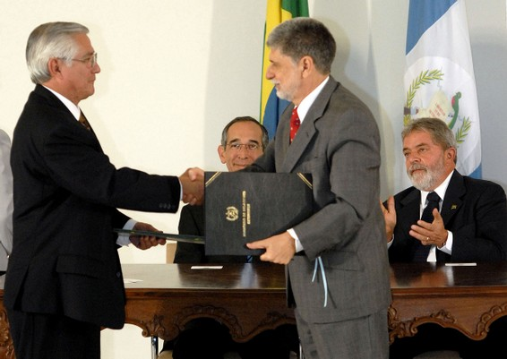 Celso Amorim and Haroldo Rodas.